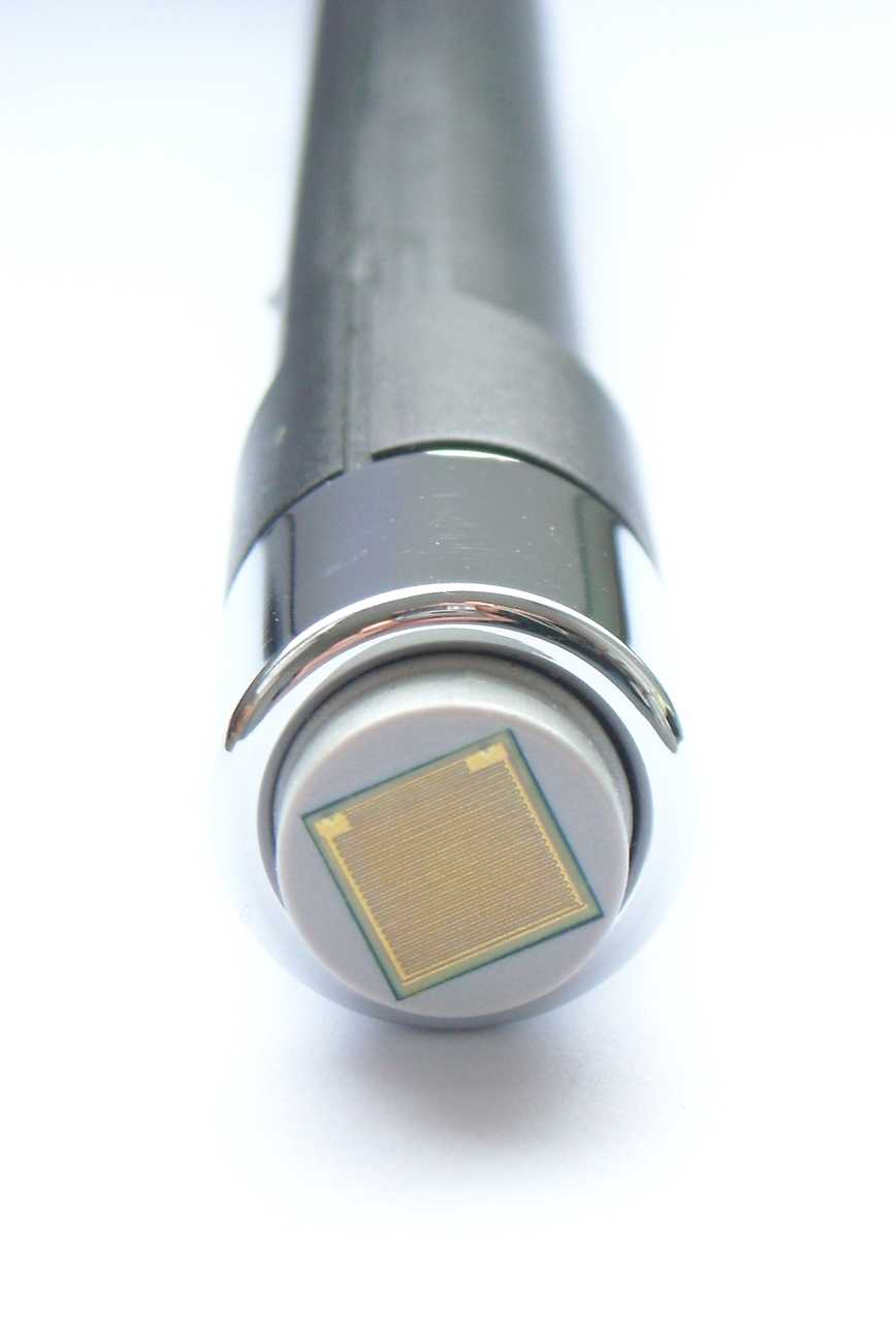 Corneometer probe for measurement of skin hydration